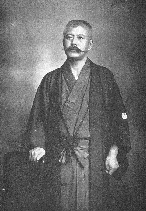 Seinosuke Go